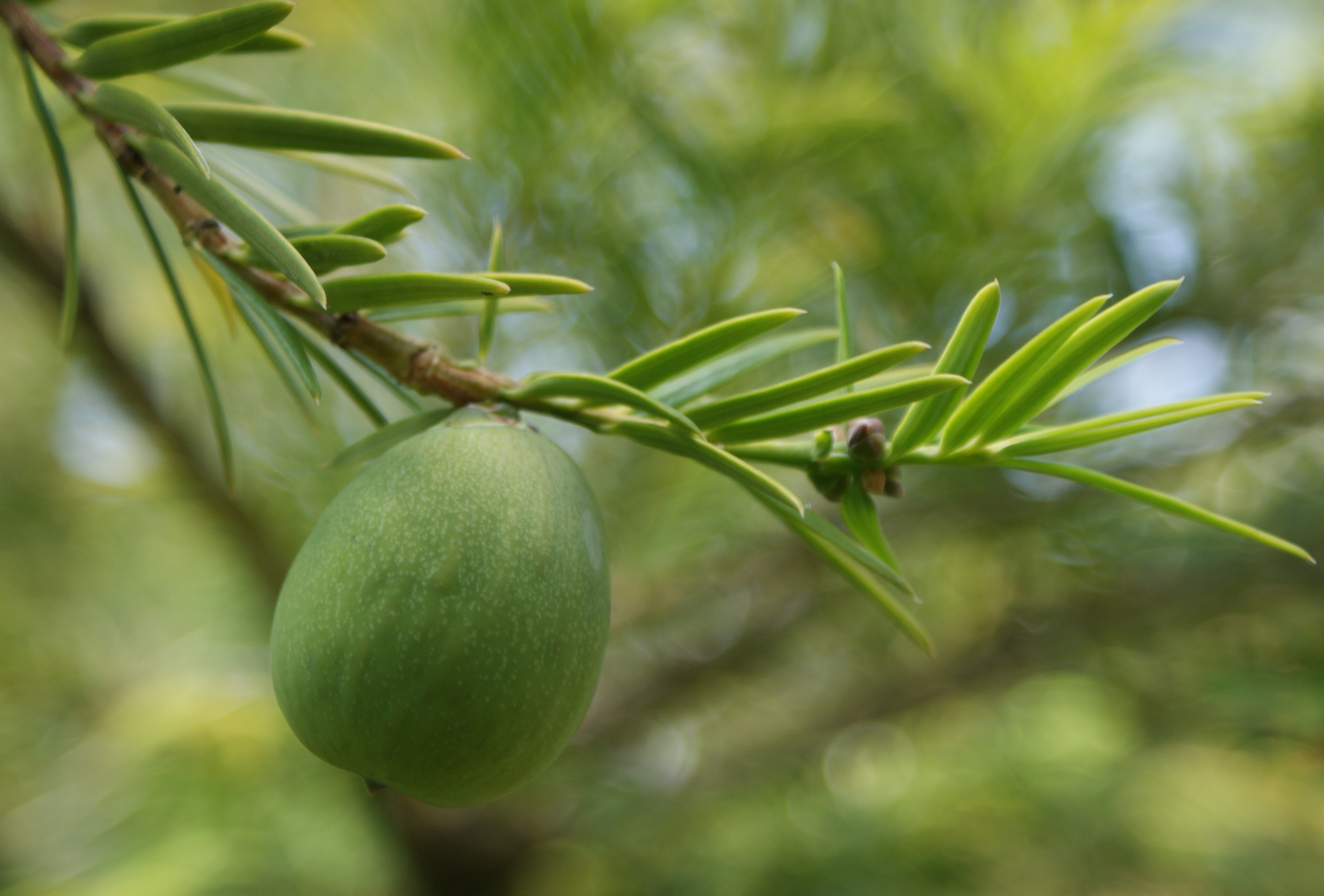 Torreya nucifera, Arboretum in Glinna (NW Poland)